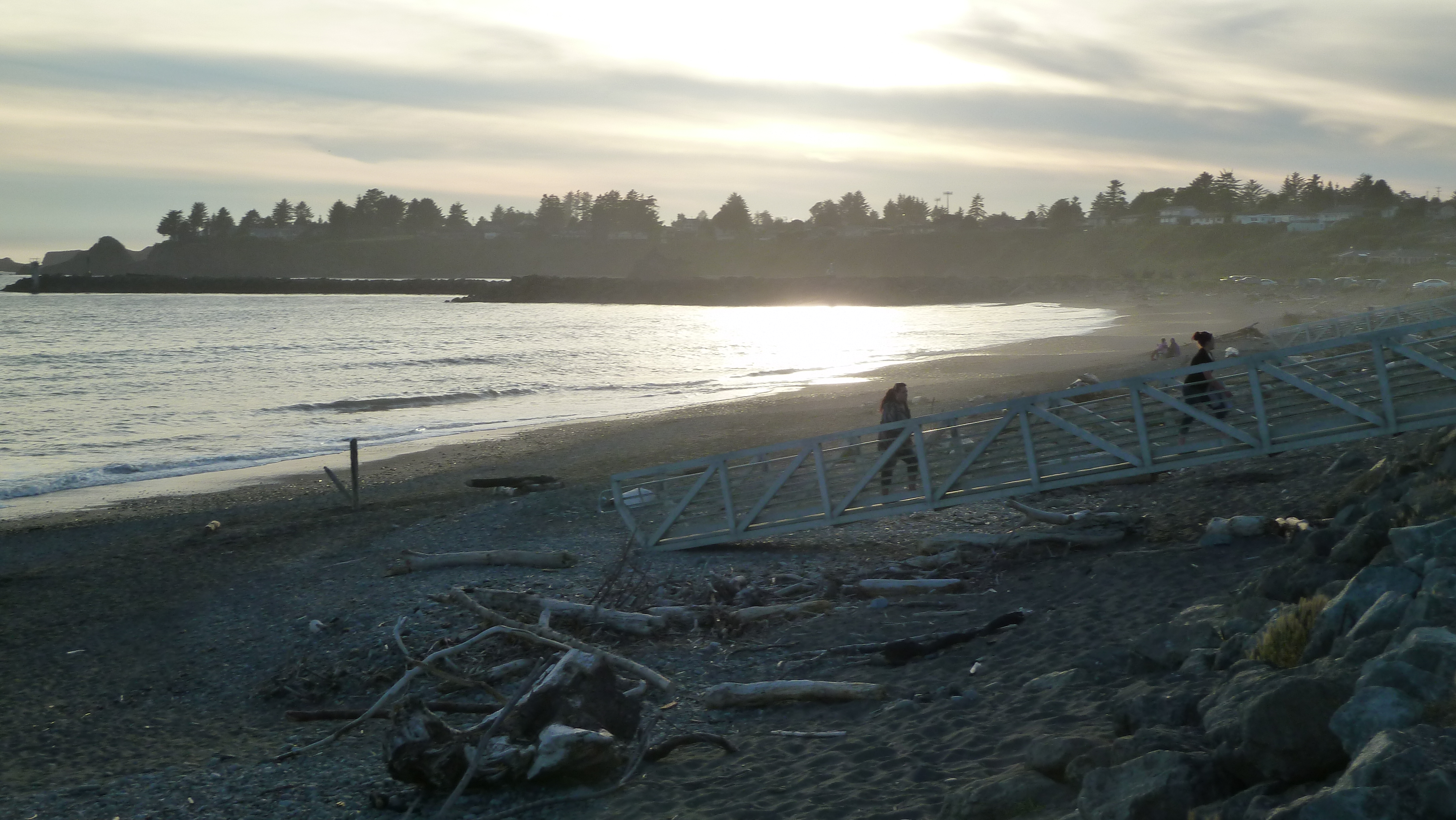 The beach at Harbor, Oregon, a CDP on the coast in Curry County